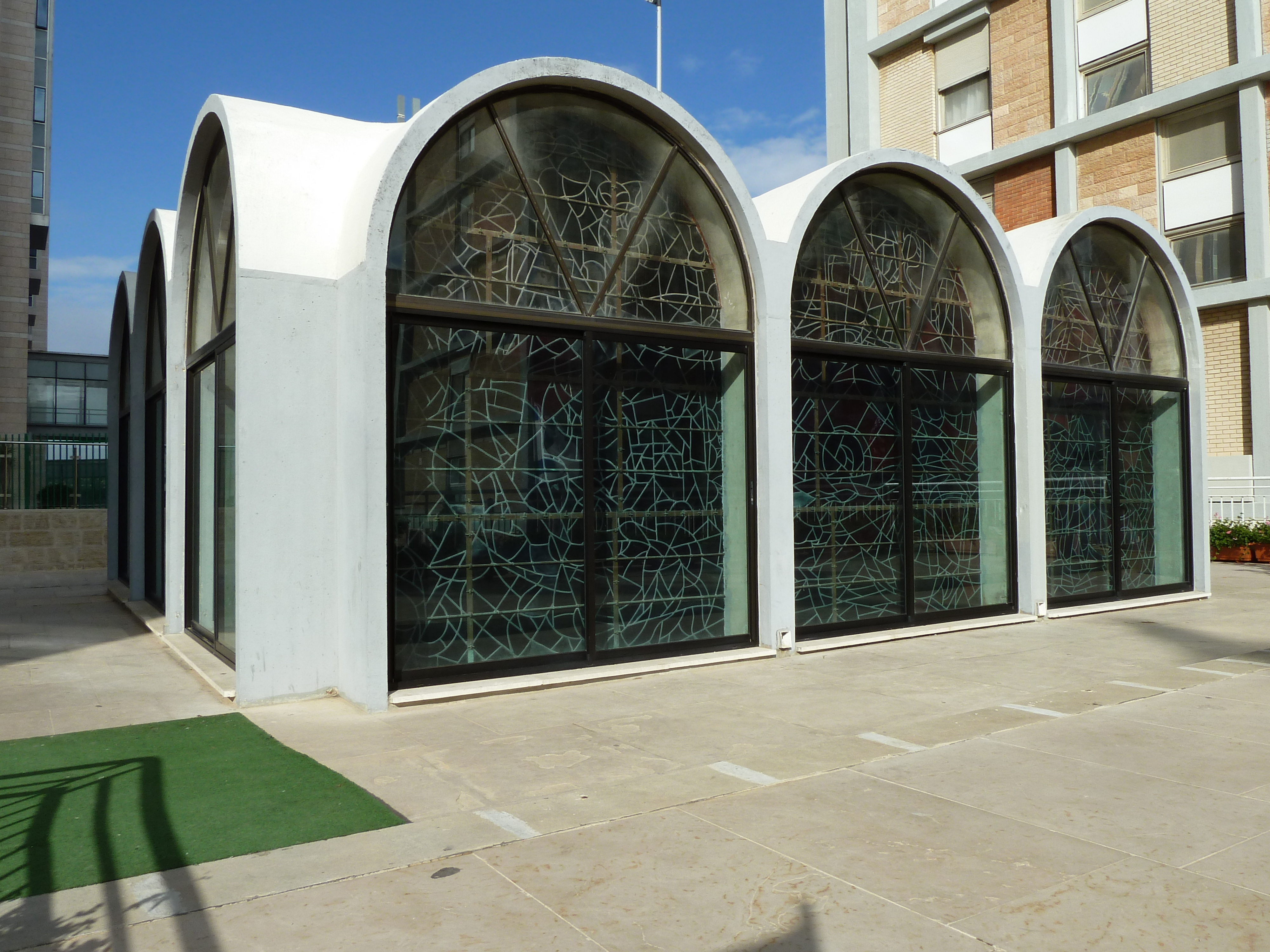 Ein-karem Synagogue of Hadassah University Hospital exterior - Chagall windows seen from outside